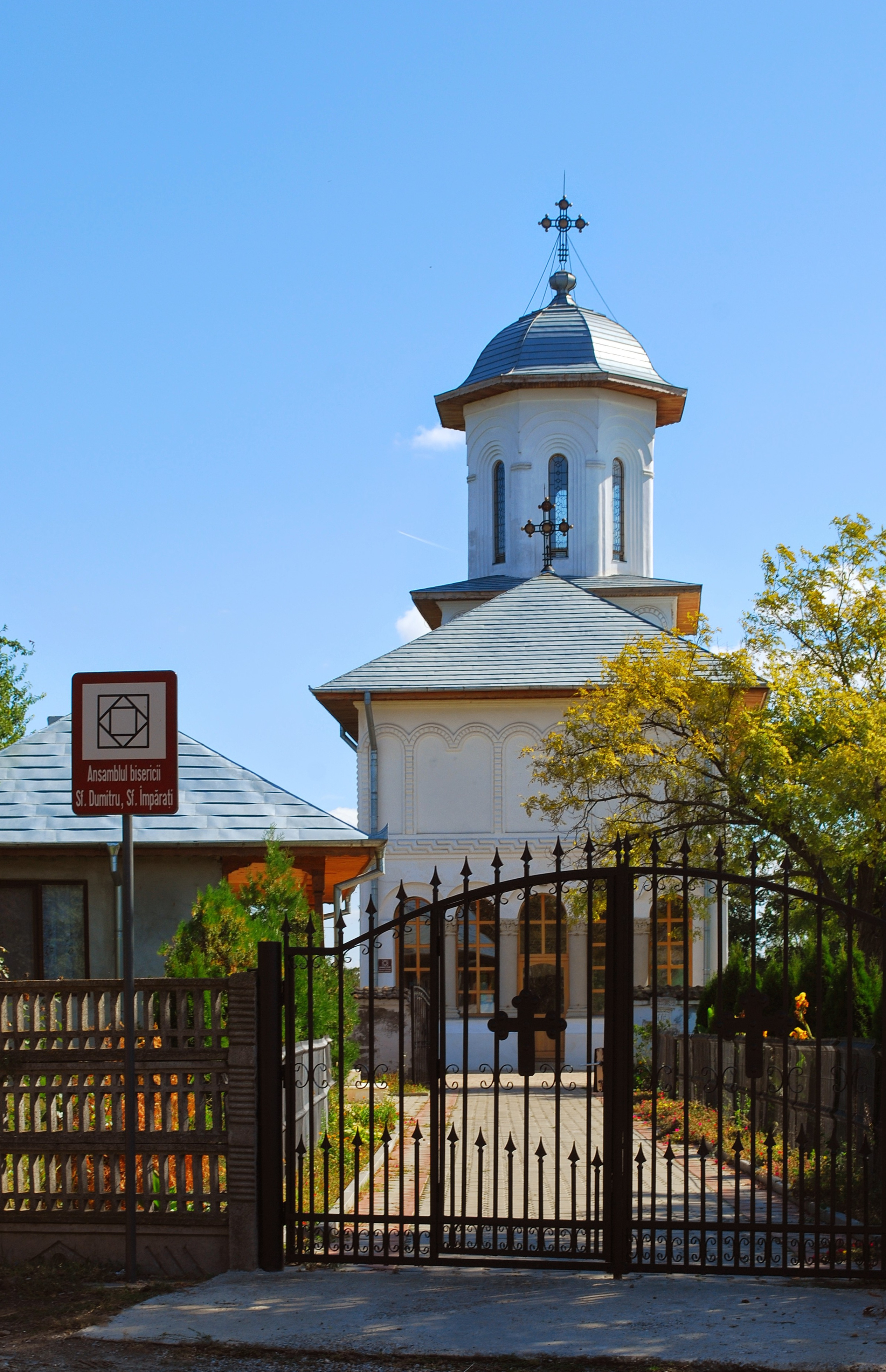 Saint Demetrius' and the Holy Emperors' Church in Stâlpu, Buzău County, RomaniaRomână: Biserica „Sfântul Dumitru și Sfinții Împărați” din Stâlpu, județul Buzău, România 01